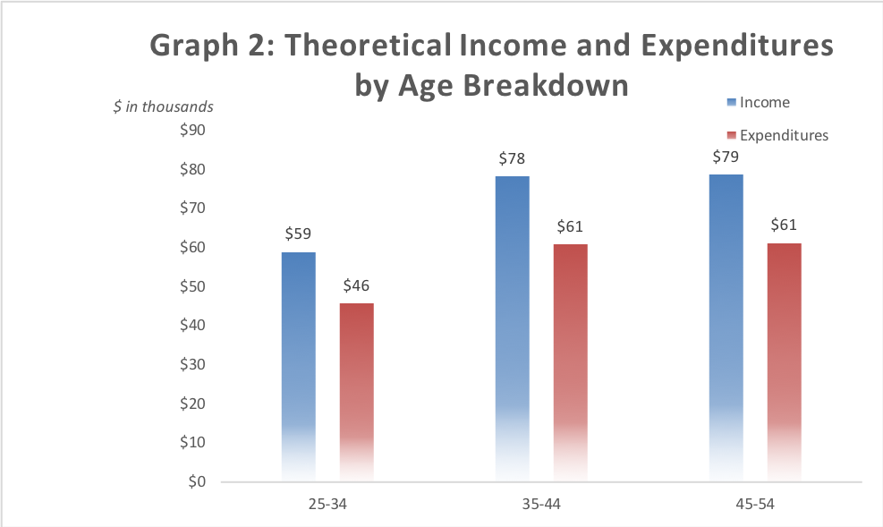 Graph 1 depicts the income of US Citizens in 2013 and theoretical expenditures which are calculated by multiplying the average empirical expenditures as a percentage of income from ages 25 to 54.